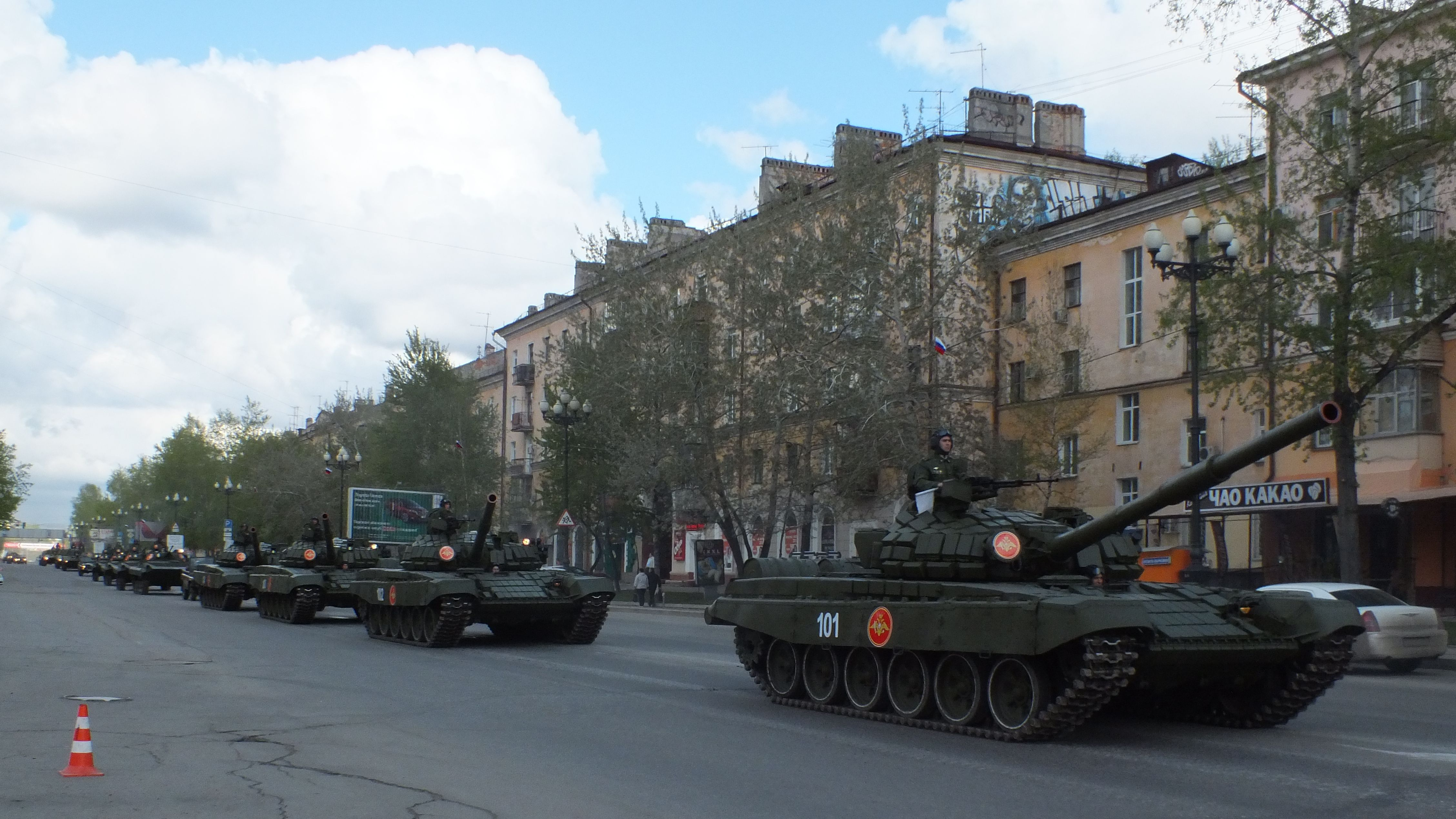 Far Eastern Military District